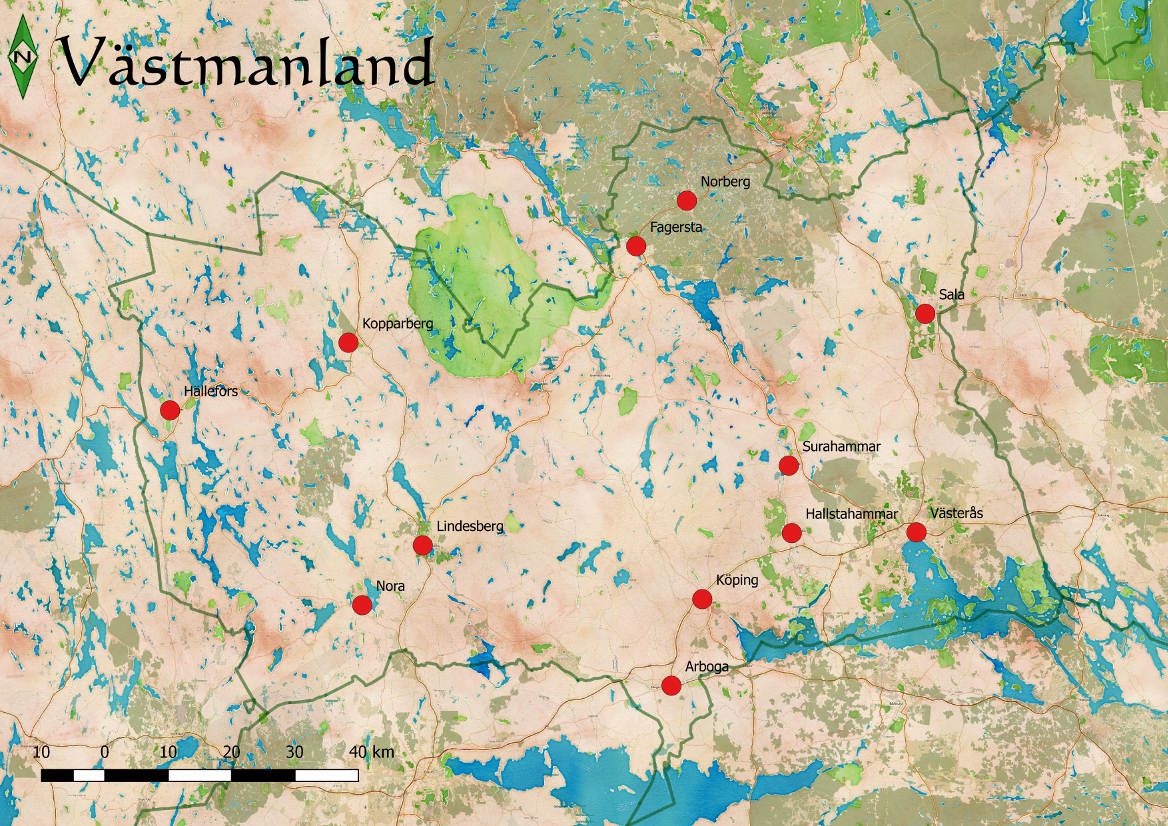 A simplified map for the Swedish region Västmanland intended to be used by children in elementary school. This map may be incomplete, and may contain errors. Don't rely solely on it for navigation.